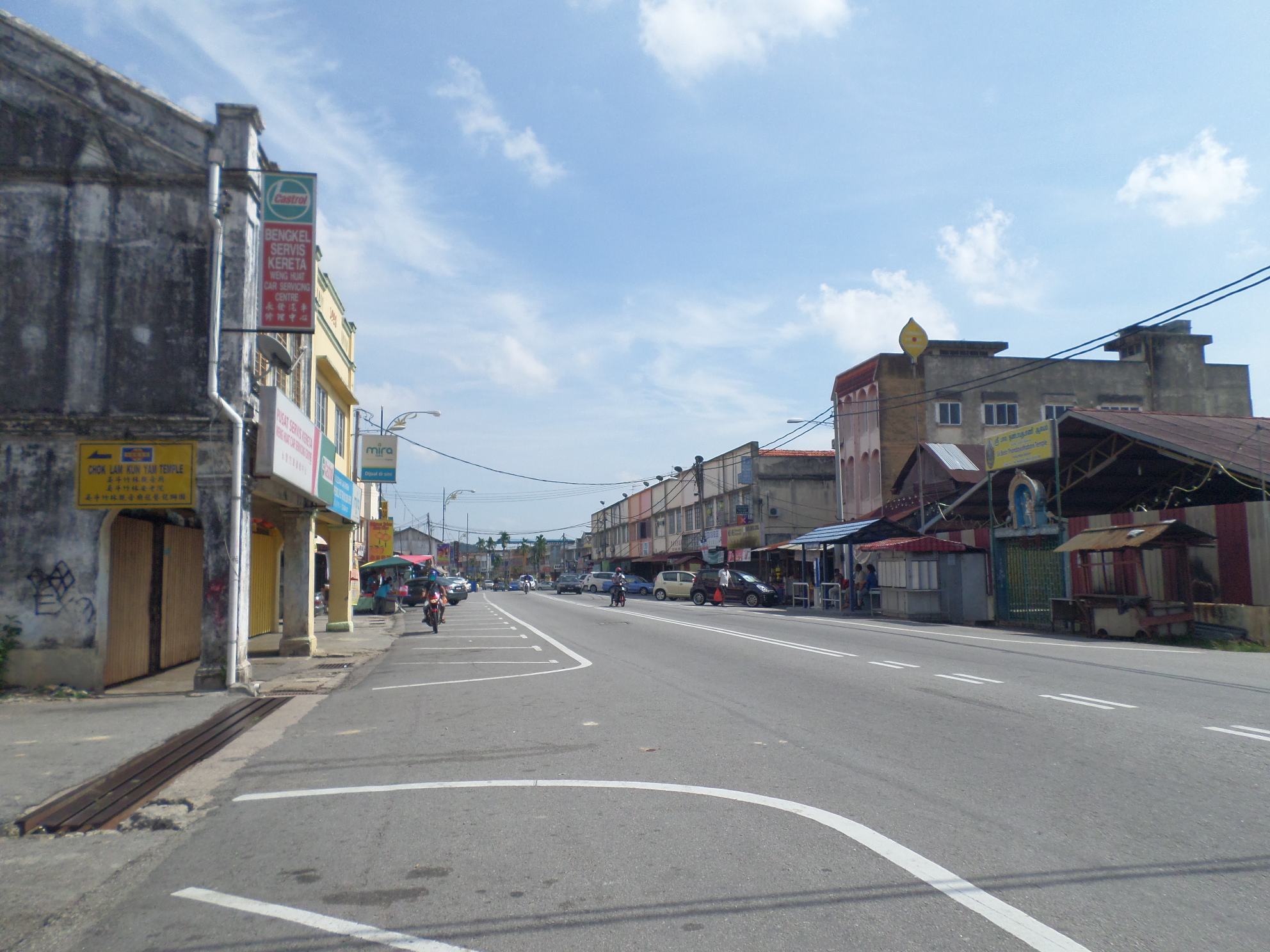 Rantau, Seremban, Negeri Sembilan, MalaysiaBahasa Melayu: Rantau, Seremban, Negeri Sembilan, Malaysia